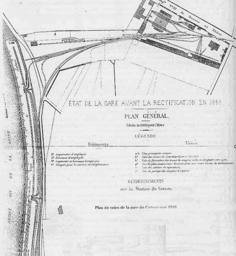 Railway station and port of Le Coteau near Roanne before 1857